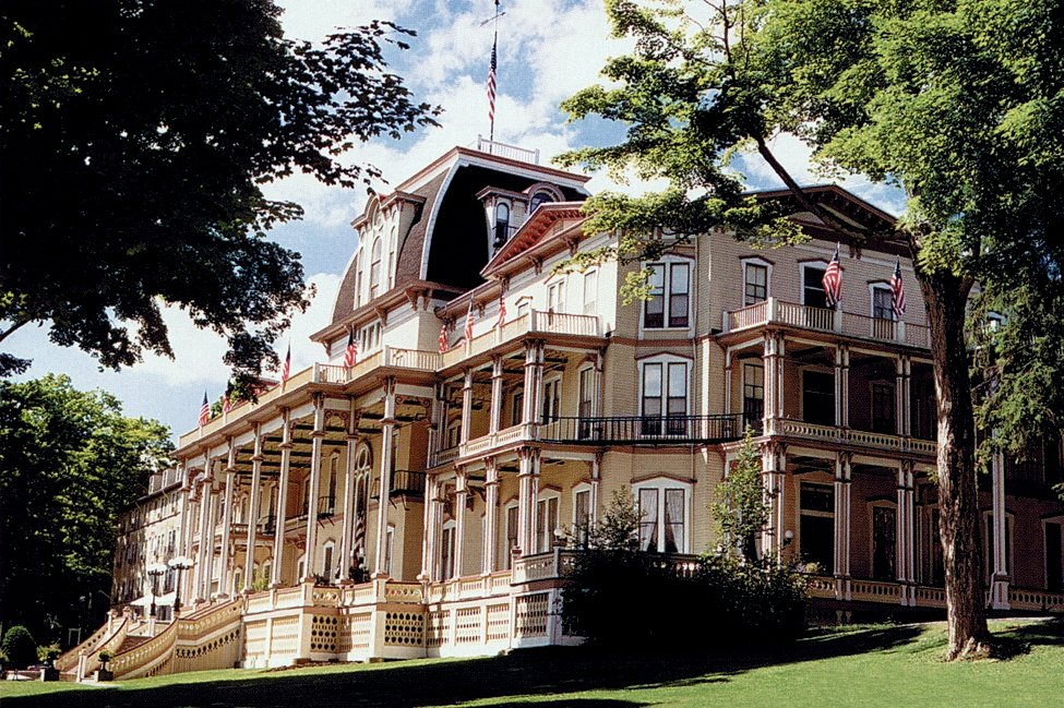 Athenaeum Hotel, on the grounds of the Chautauqua Institution, Chautauqua, New York.